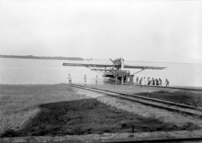 A Dornier Wal flying boat at the base of the MLD